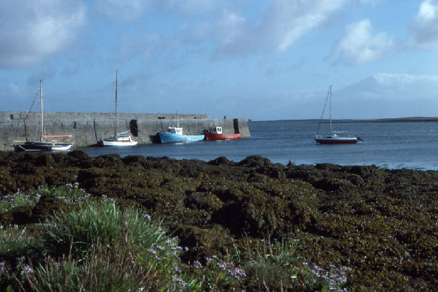 Ballyvaghan Harbour and Pier; in the foreground sea-aster. The tide is out.